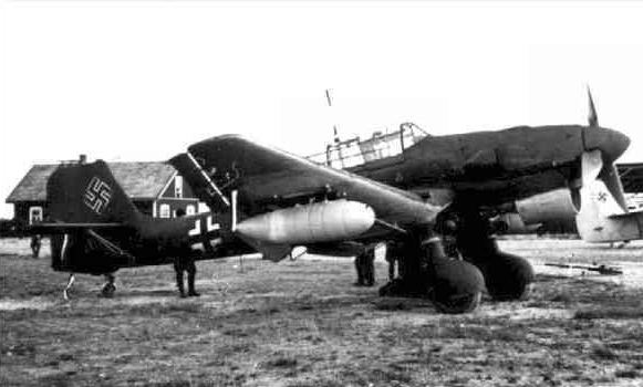 Junkers Ju 87R Stuka of German Luftwaffe during WW II at Pori Airport, Finland.